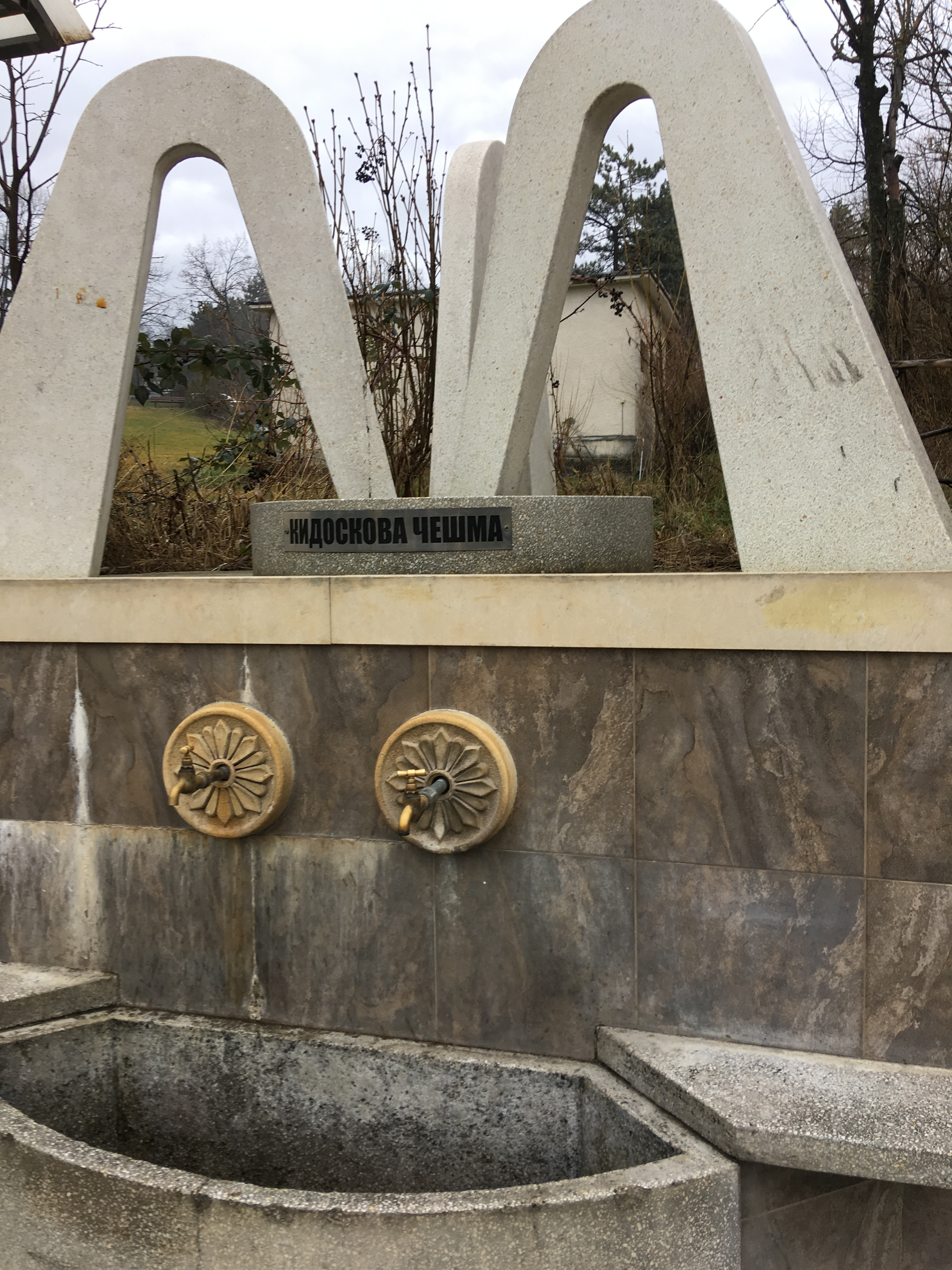 Mineral water Streltcha Bulgaria